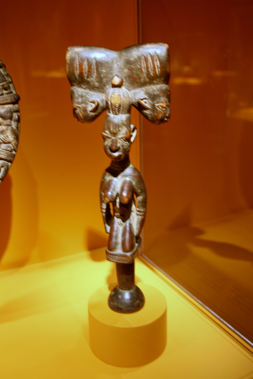 Staff, Yoruba peoples, Oyo area, Nigeria, Early 20th century, Wood, pigment This staff is an emblem of Shango, the Yoruba god of thunder. It combines seemingly contradictory aspects of Shango-the idea that it is Shango who hurls thunderbolts to punish wrongdoers with the belief that he is generous, the giver of children and the protector of twins. A female devotee kneels in worship while balancing on her head the double axe motif that symbolizes the god's thunderbolts. The axes have been carved into twin heads. As in many African cultures, beauty is linked with moral values-in this case, hard work. The success of the woman also reflects the hard work and achievement of her husband, who supports her generosity.